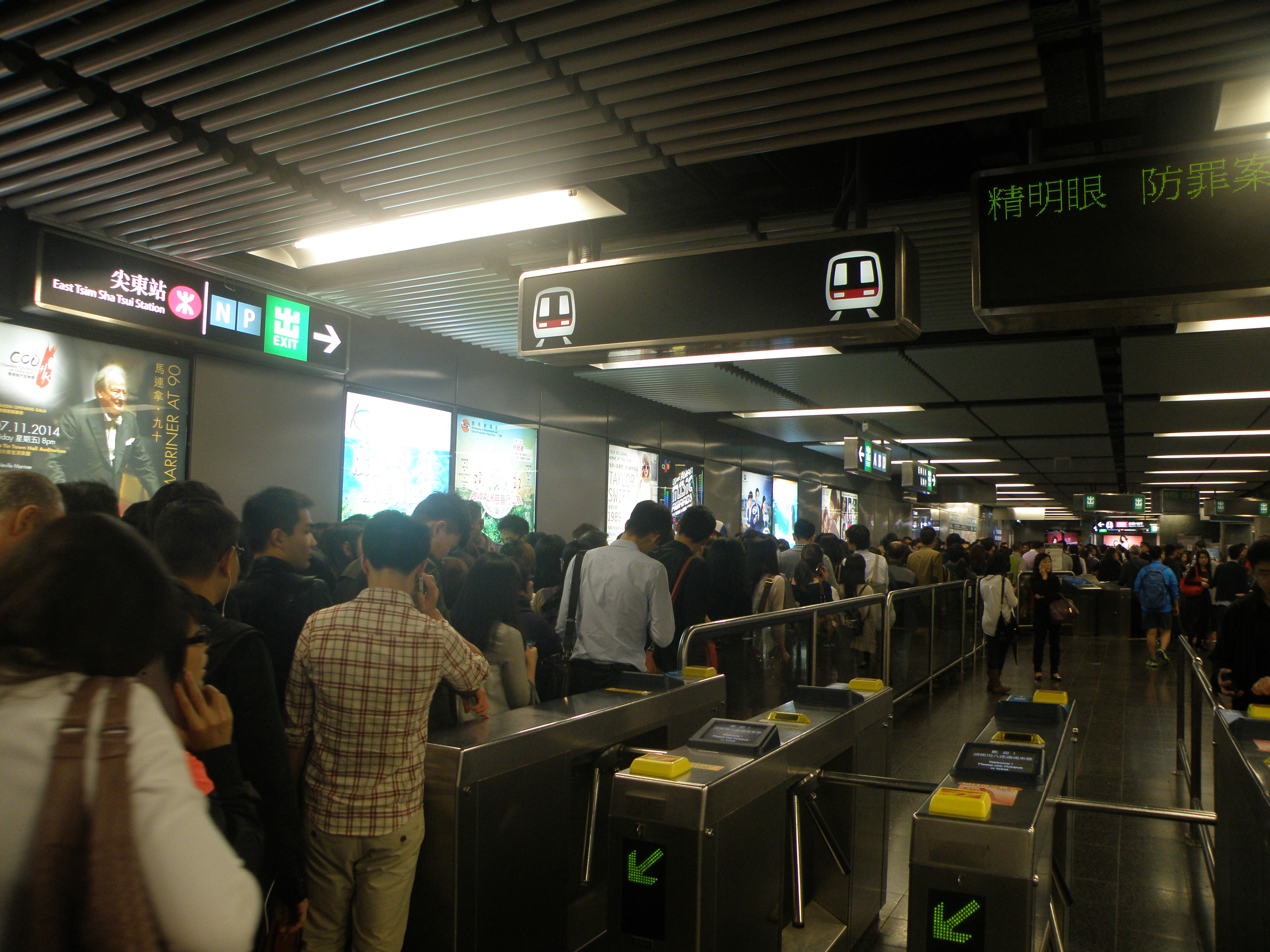 Tsim Sha Tsui Station, Hong Kong.